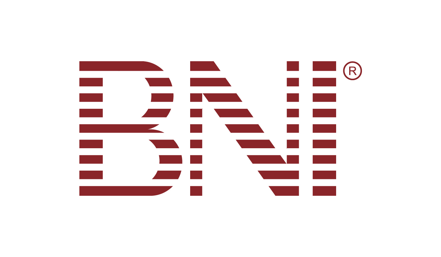 Logo Business Network International